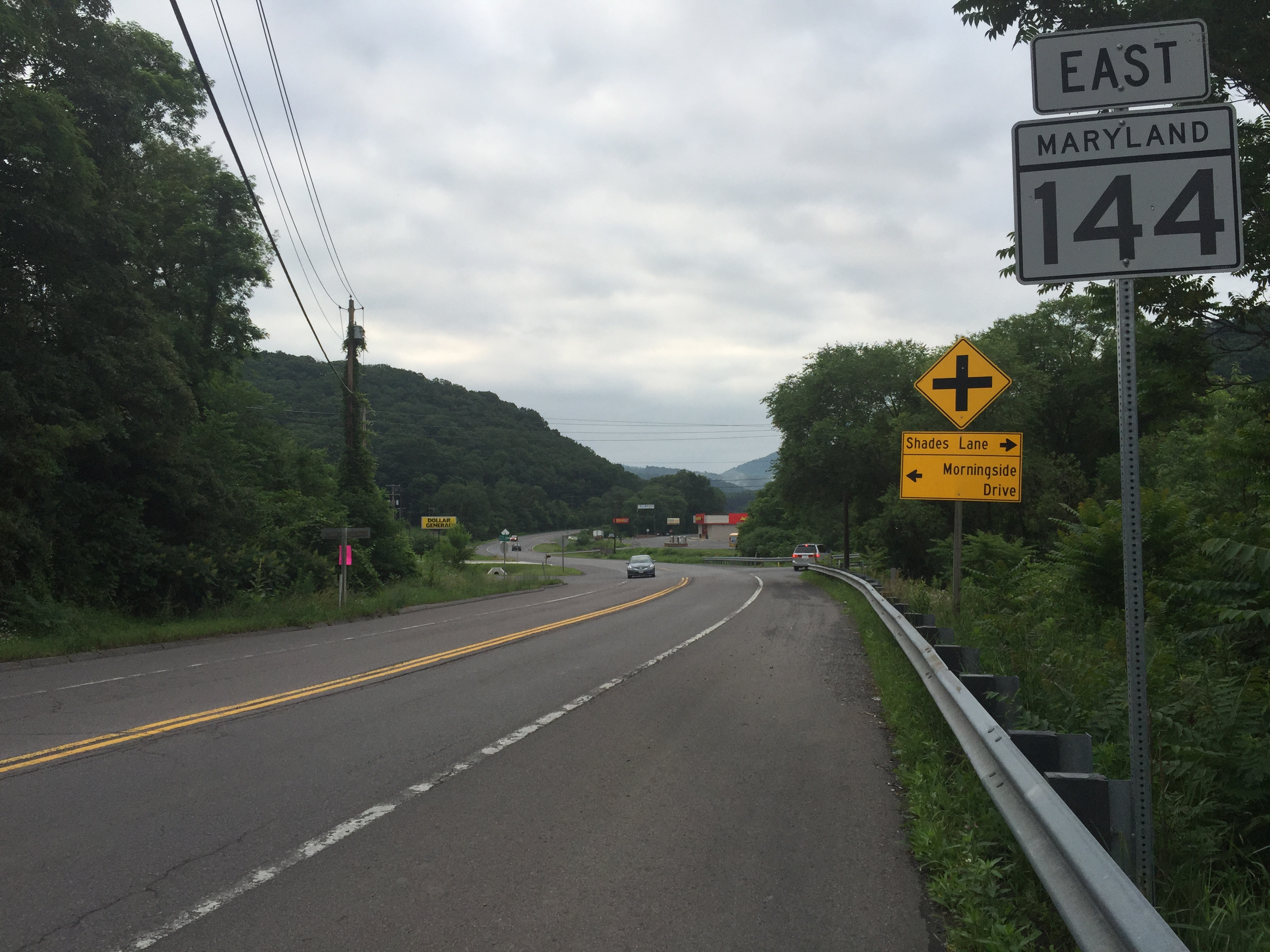 View east along Maryland State Route 144 (Naves Cross Road) between Maryland Route 807 (Bedford Road) and Shades Lane just east of Cumberland in Allegany County, Maryland